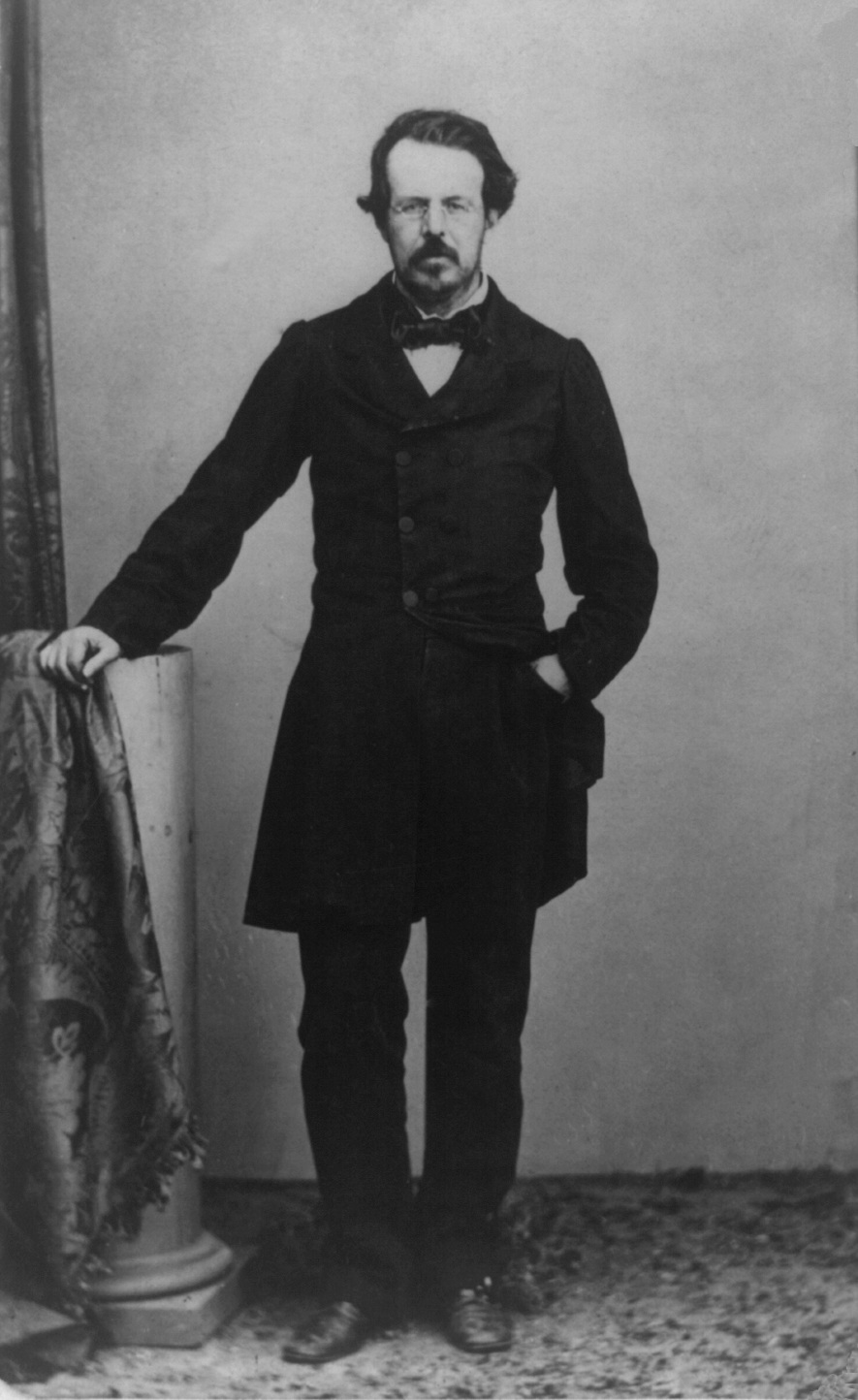 Guillermo Prieto, a Mexican writer, journalist and politician. Full-length portrait, standing, facing front.